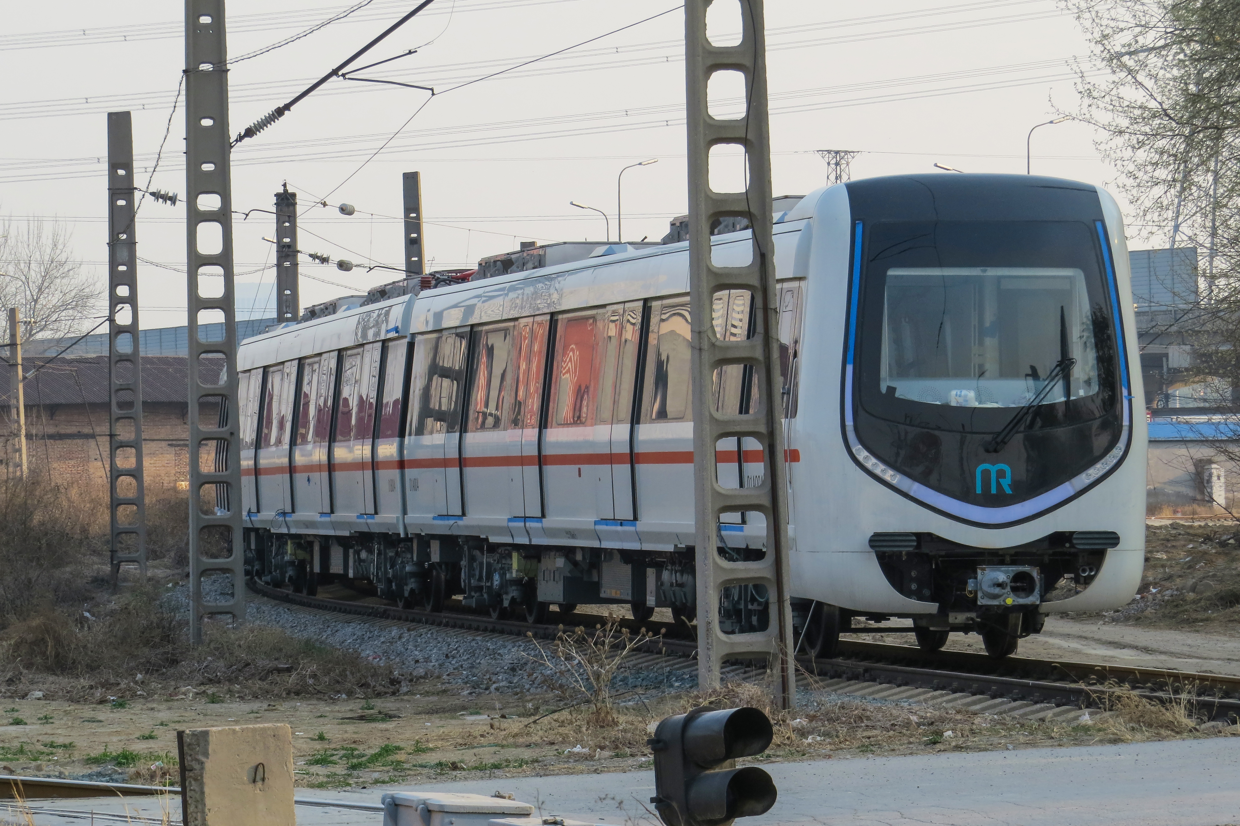 Overall train number unknown. I was quickly blamed for photographing this train after taking the detailed photo of train numbers.